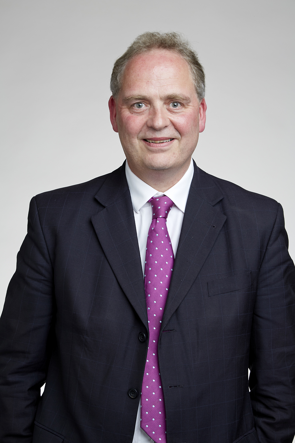 Antony Giuseppe Galione (born 1963) FRS FMedSci is Professor of Pharmacology and Wellcome Trust Senior Investigator in the Department of Pharmacology at the University of Oxford. Attribution: The Royal Society